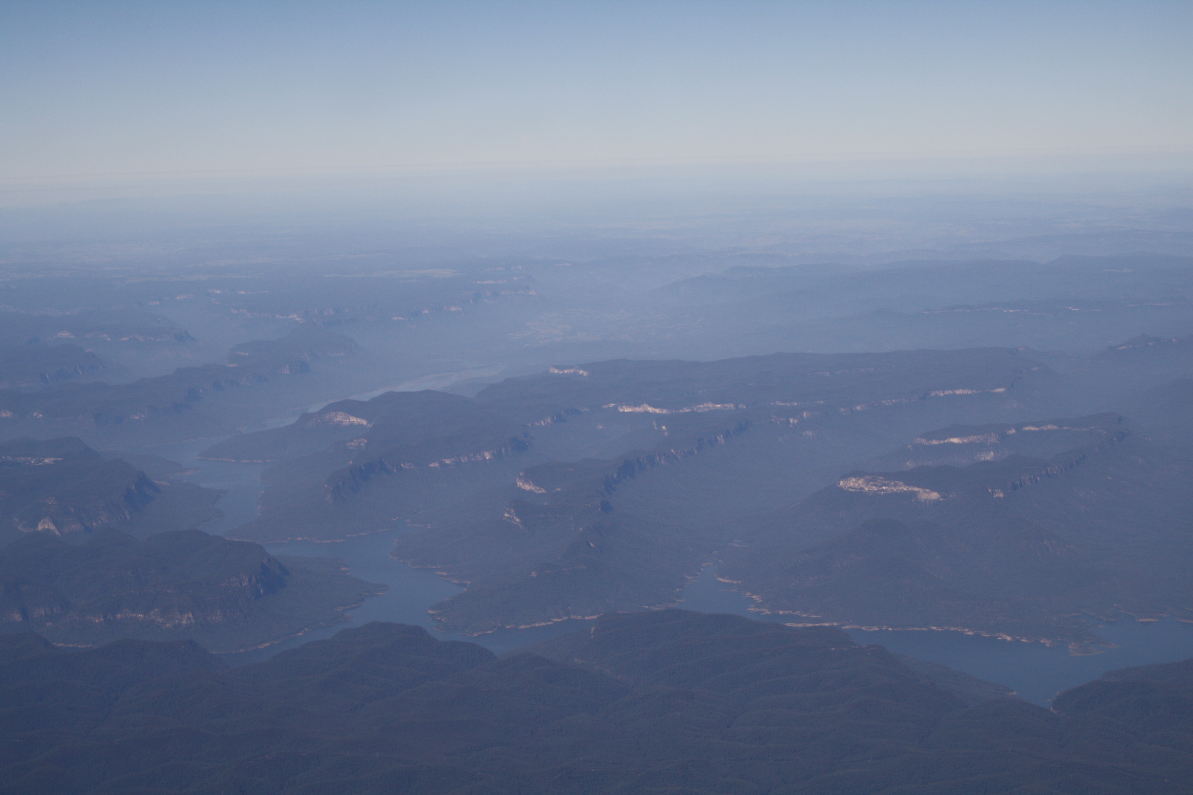 Air photograph of the Blue Mountains, March 2010